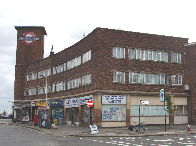 Park Royal Underground Station, Piccadilly Line